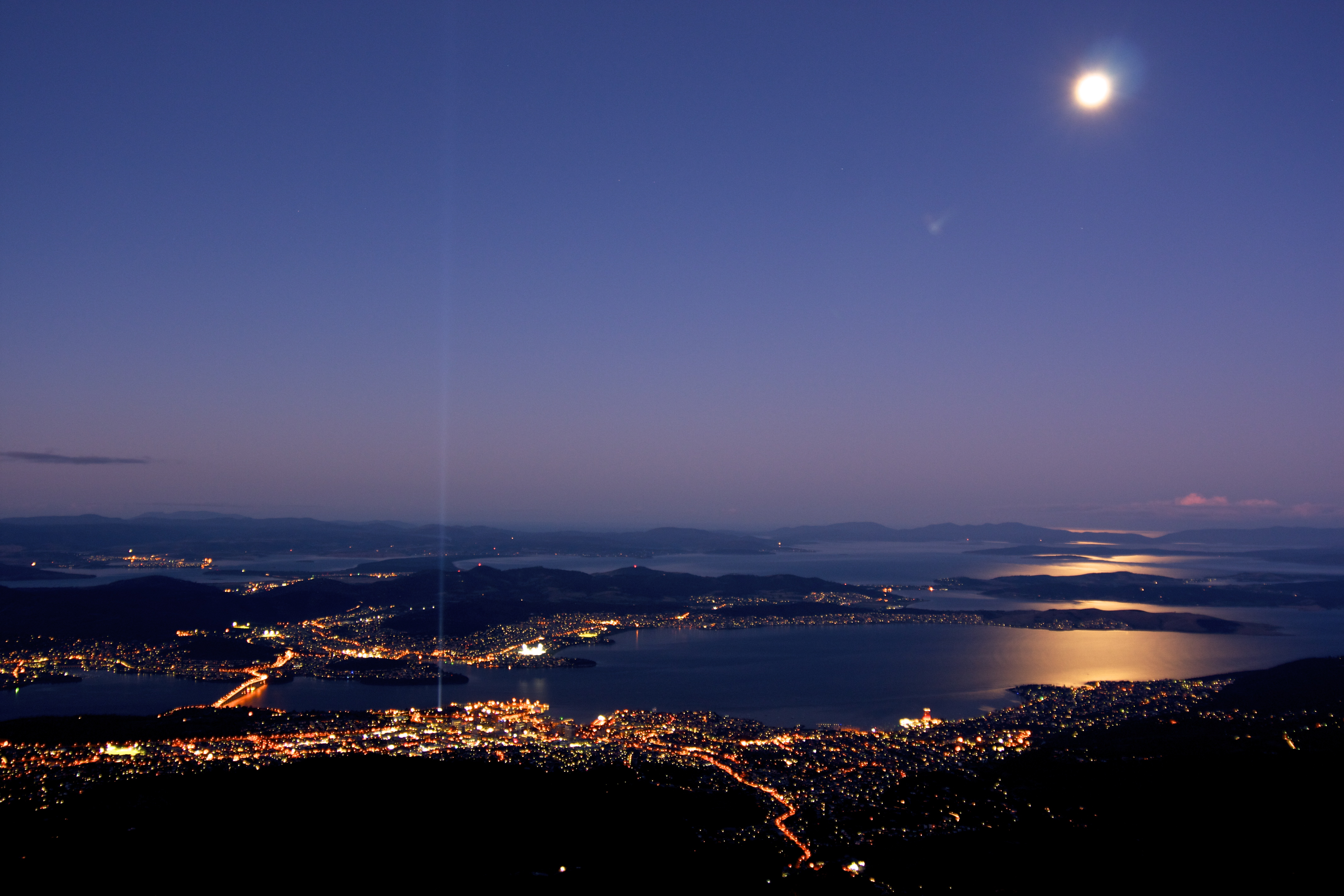 Hobart moonrise from Mt Wellington